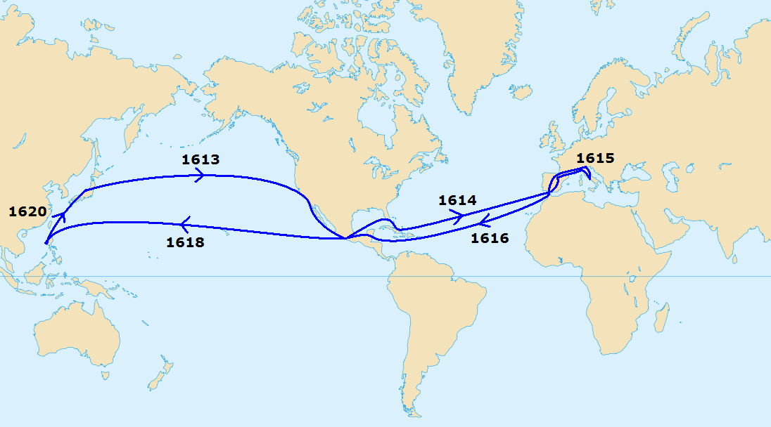 The travels of Hasekura Tsunenaga.